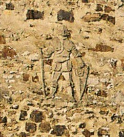 Castle Burg Lohmar, Lohmar, detail of the southwestern gable wall of the mansion